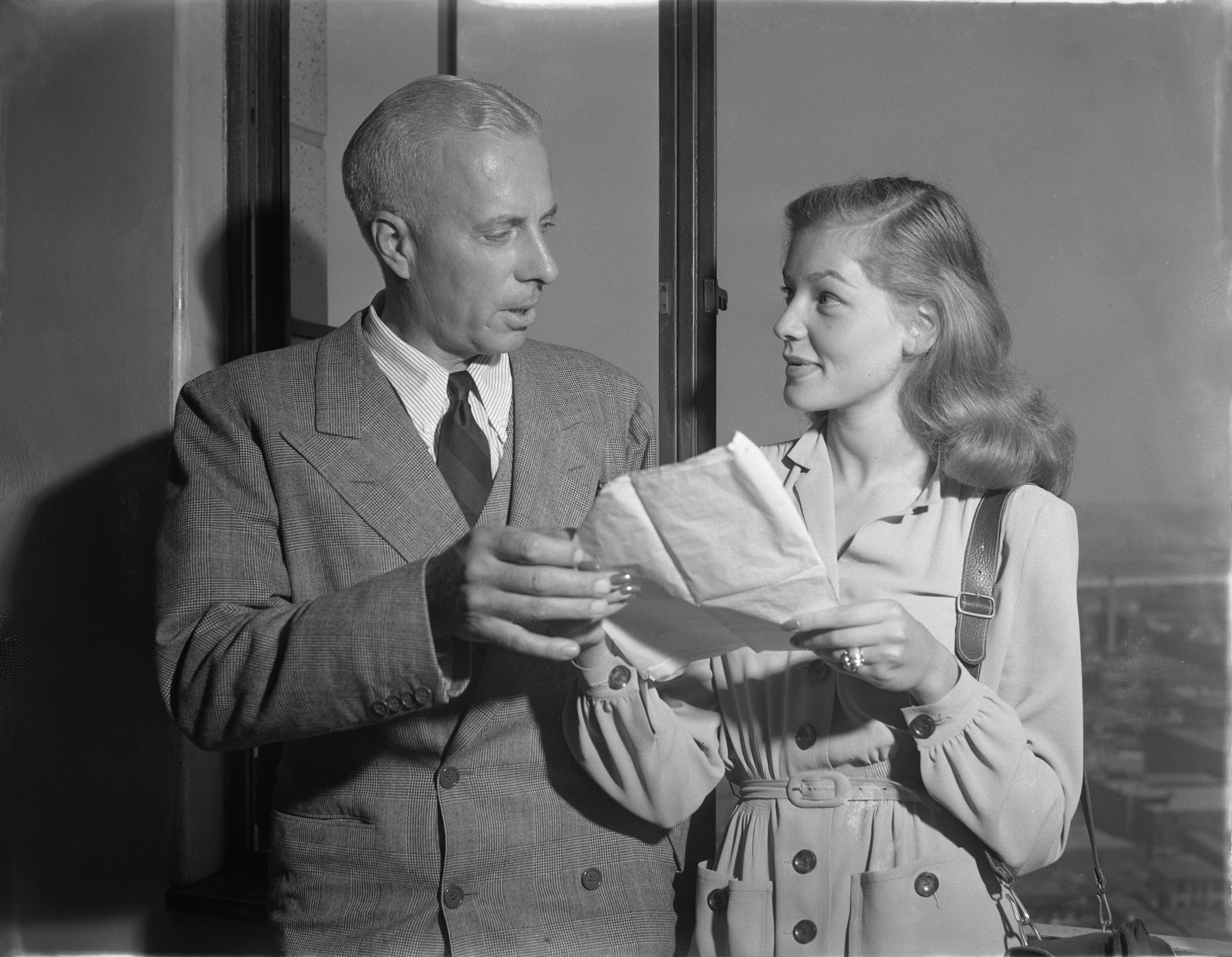 Title: Actress Lauren Bacall and film director Howard Hawks, circa 1943 Publication:Los Angeles Daily News Publication date:1943 Original Source:Los Angeles Times photographic archive, UCLA Library